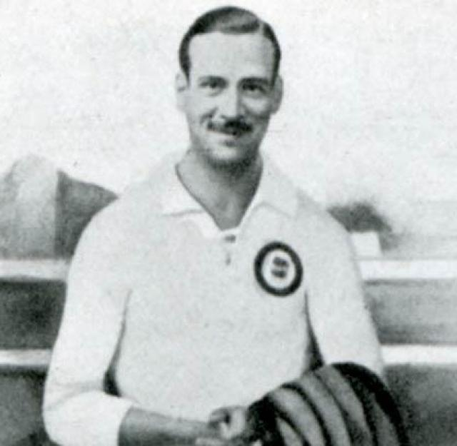 Player of Real Madrid Club de Fútbol, Sotero Aranguren.